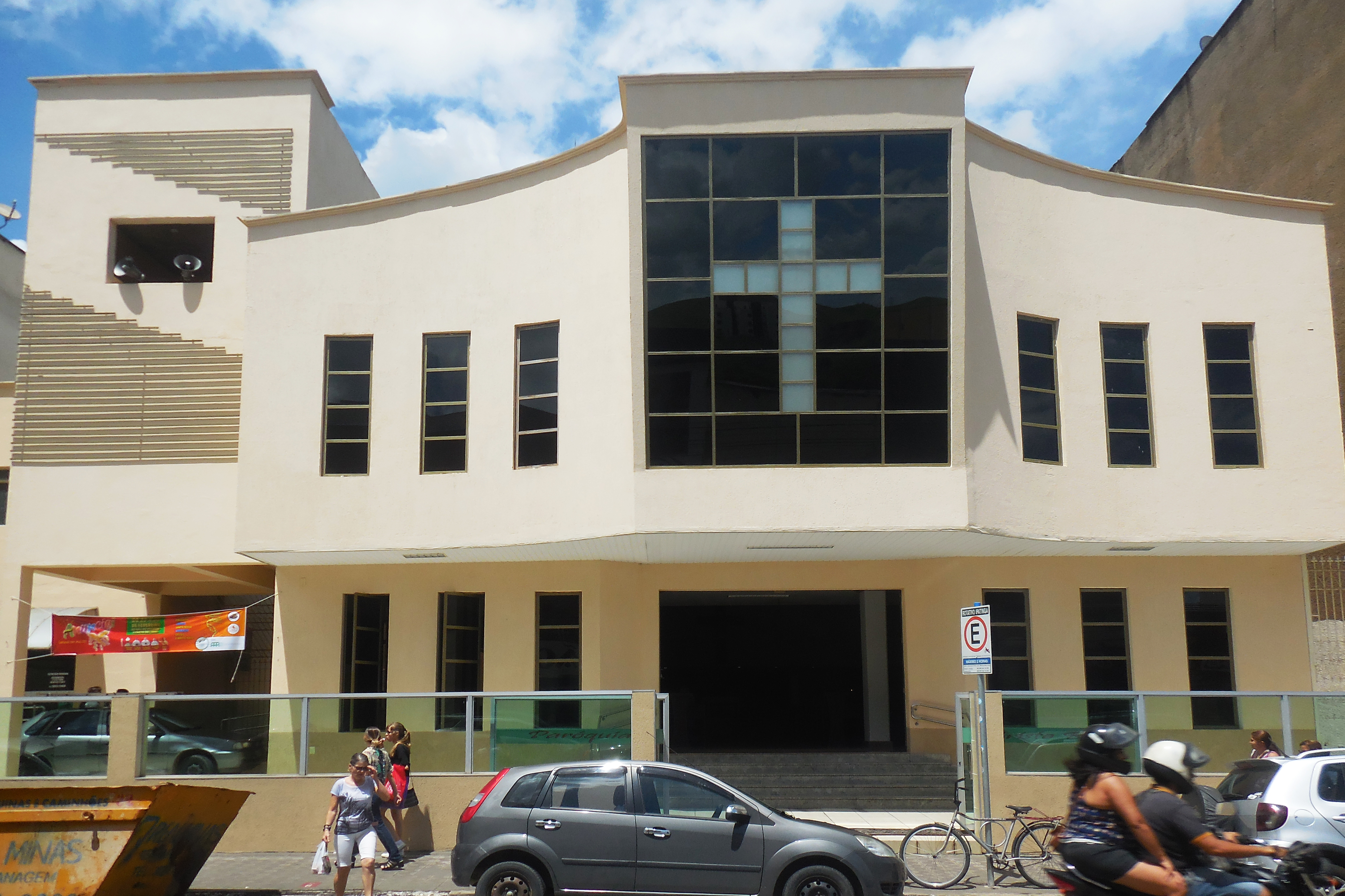 Partial front of the Christ the King Church, in Ipatinga, Minas Gerais, Brazil.